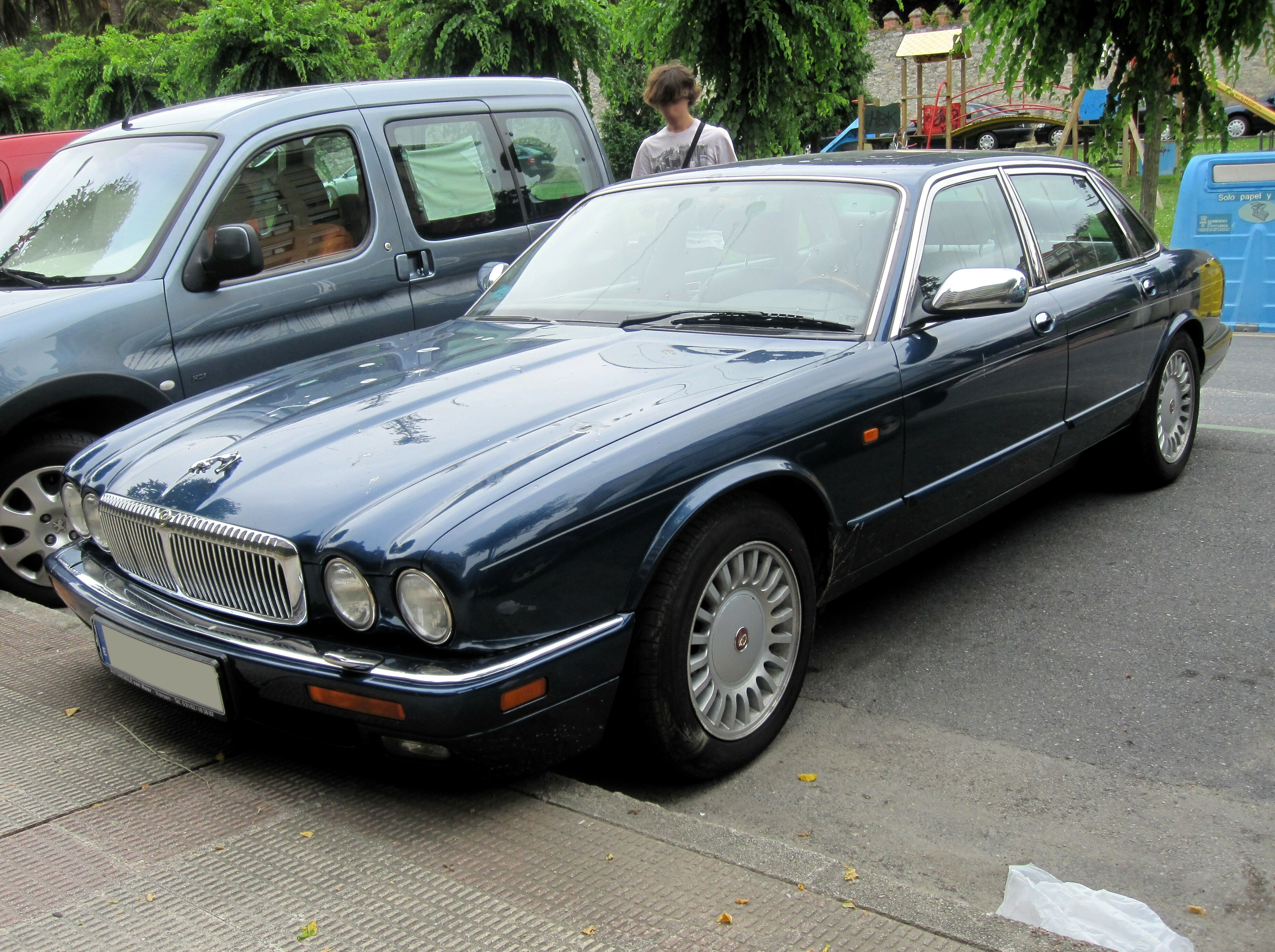 One I had already seen before but of which I only had crappy photos. 2008 plates, too new for it. Seen in Castro Urdiales (Cantabria).